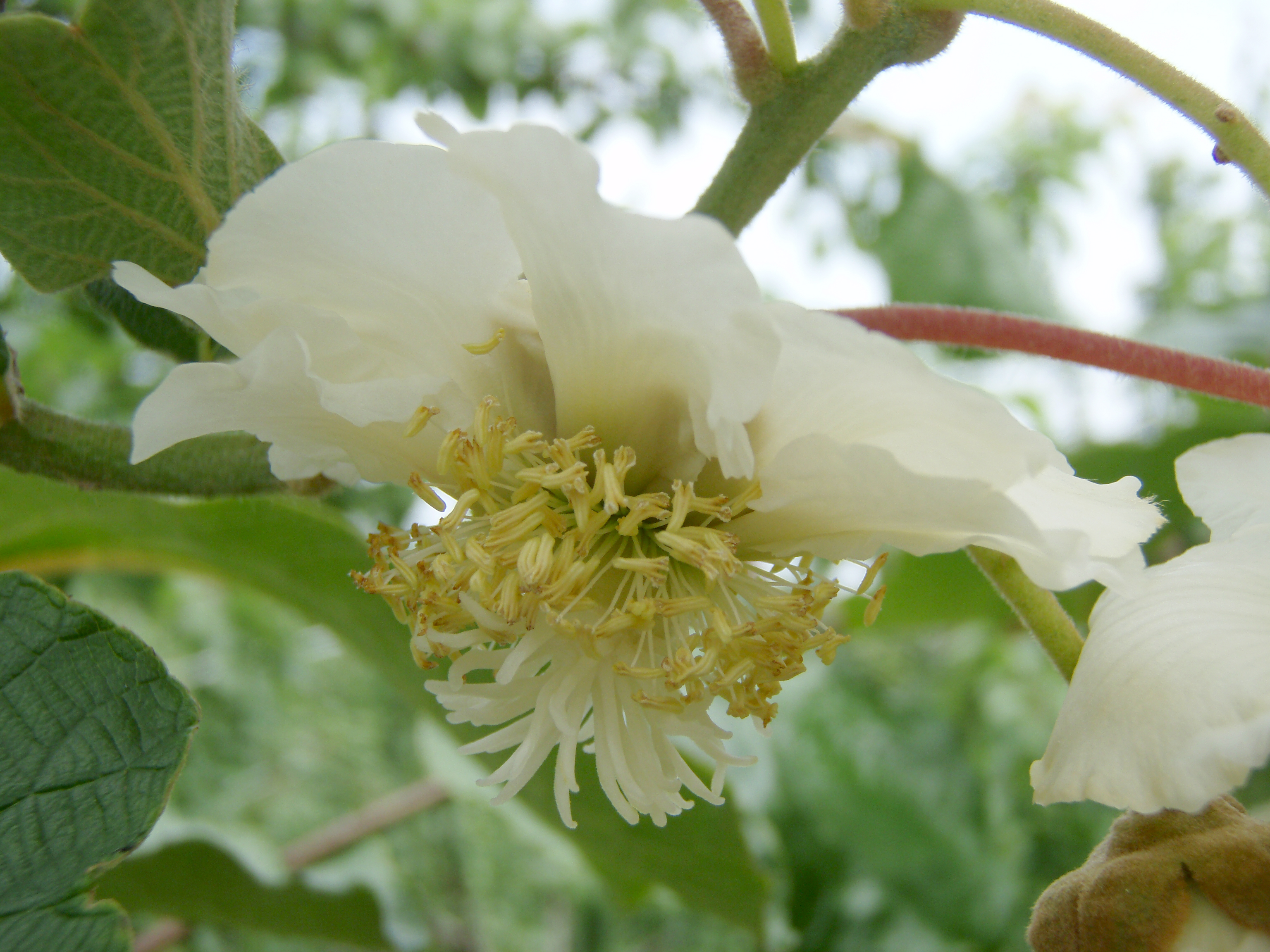 Description: Female Kiwi-flower, キウイフルーツの雌花